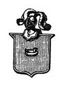 Nestle family coat of arms. 19th century